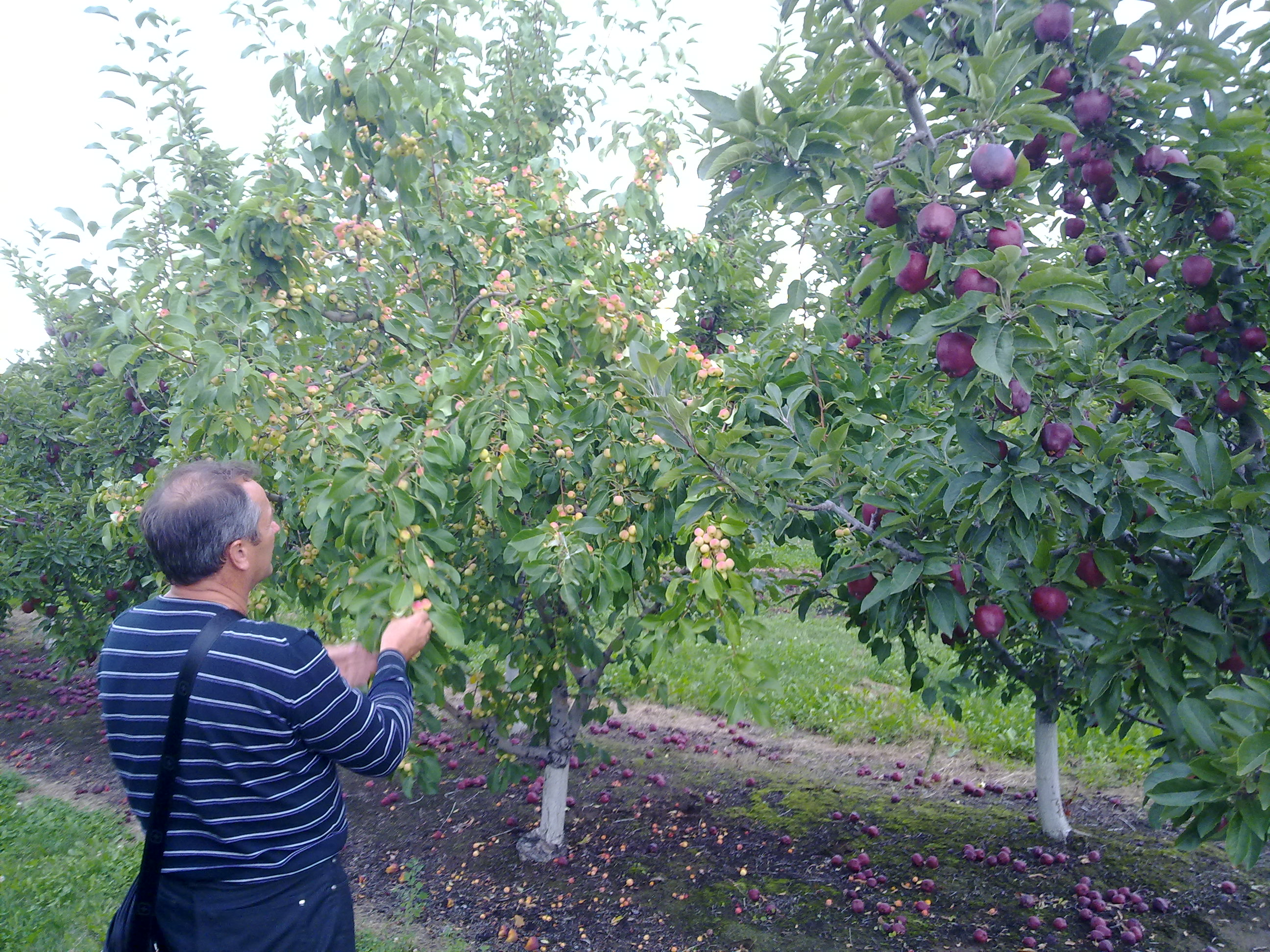 Crabapple as pollinator in apple orchard - Red delicious cultivar. Selah, Washington, USA